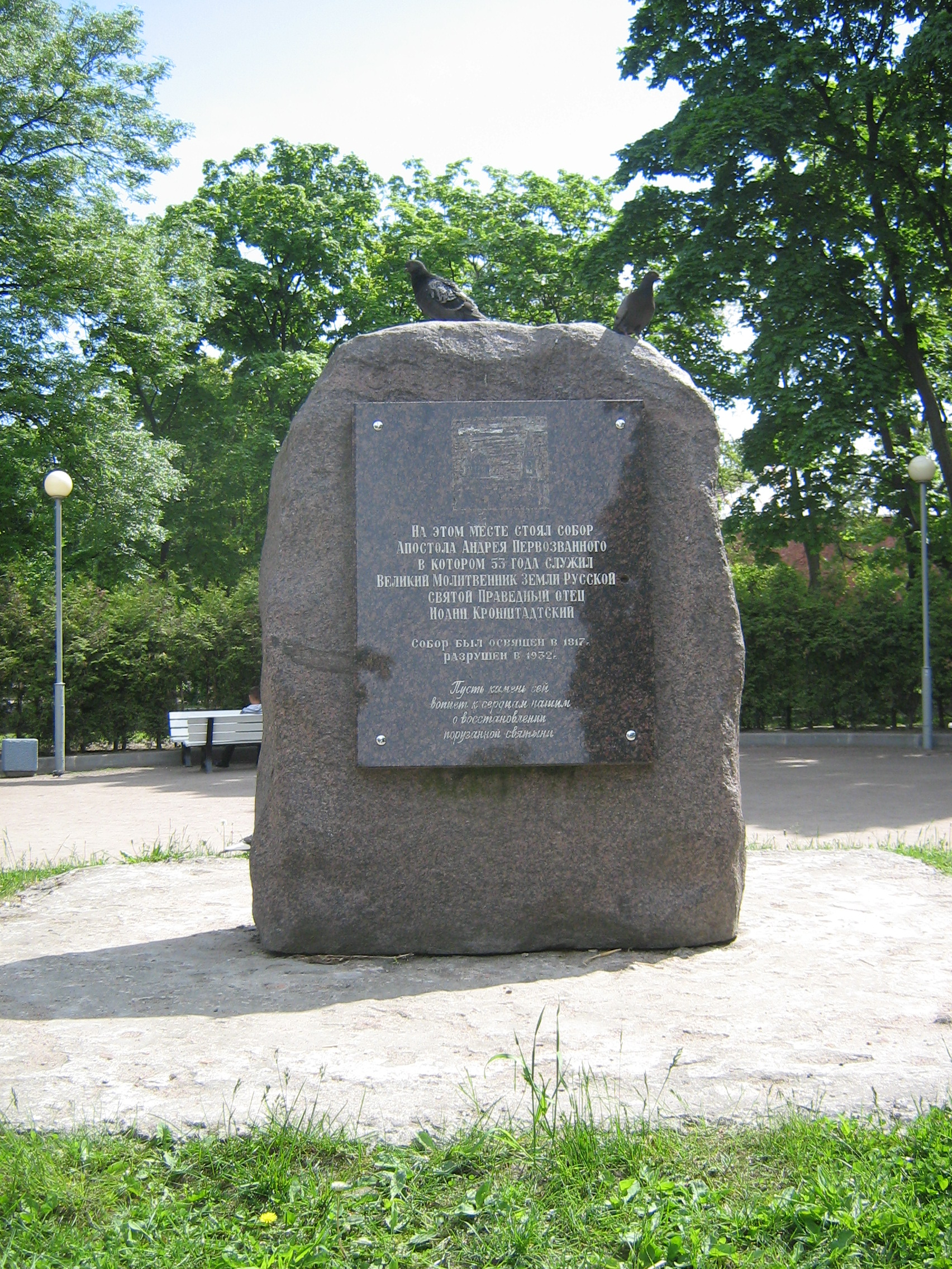 Saint Petersburg (Russia), Kronstadt.